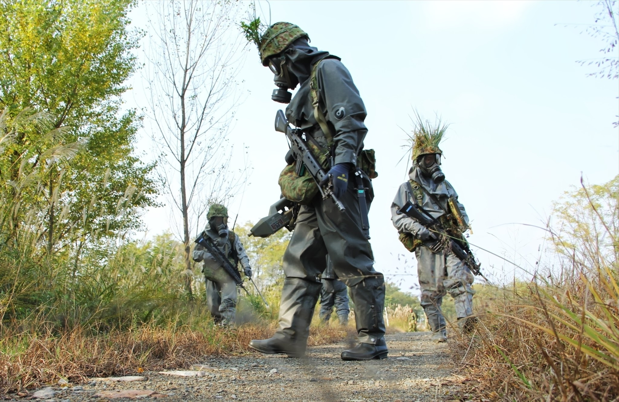 Title 化学防護衣４形24.10.26 第6特殊武器防護隊６Ｃｍｌ「化学剤反応あり!」.JPG Album 装備 化学防護衣４形（訓練・第６特殊武器防護隊）